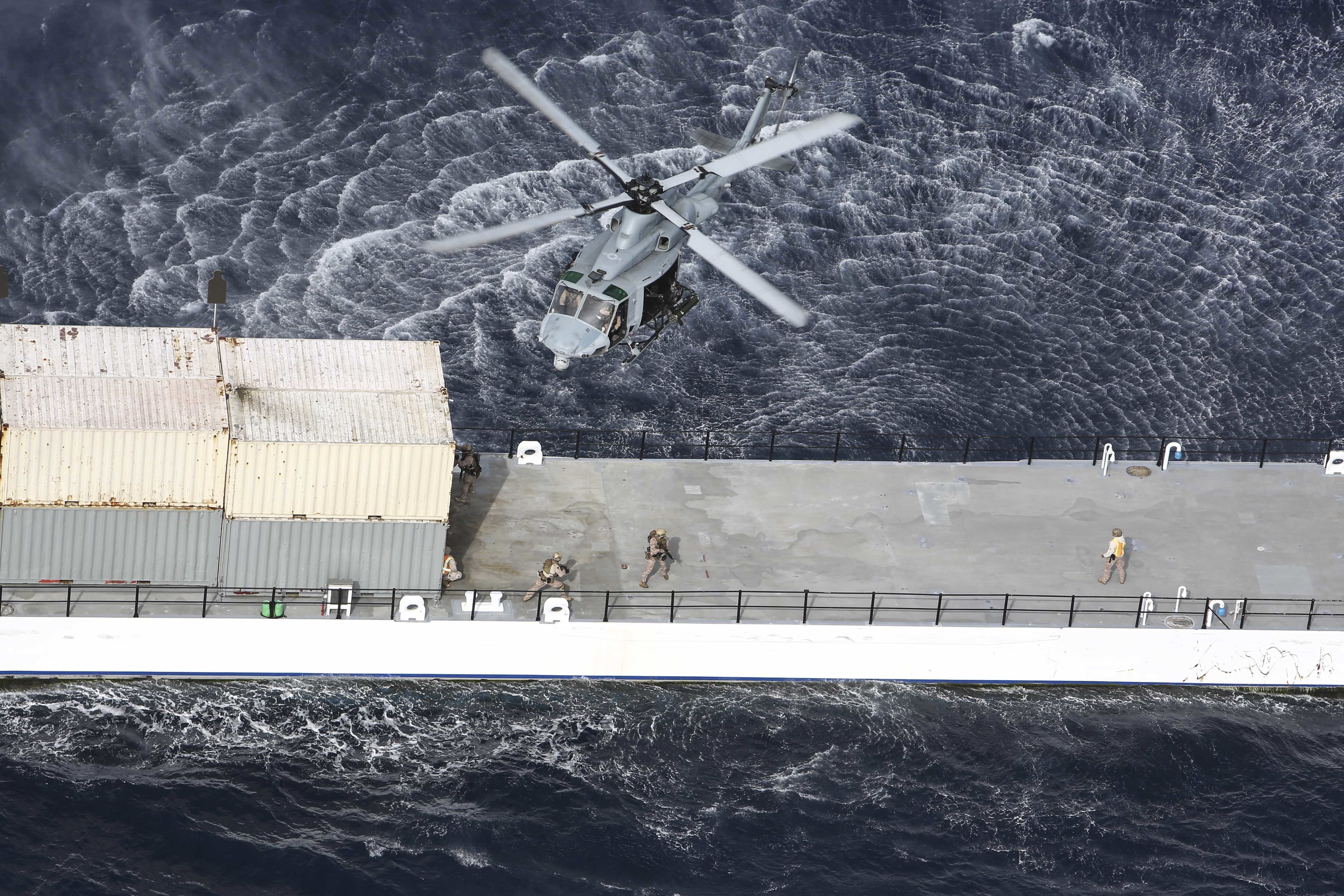 A UH-1Y Venom departs after transporting a boarding team from the USS Anchorage (LPD-23) March 18, 2015. Marines with the 15th Marine Expeditionary Unit’s Maritime Raid Force fast-roped onto the ATLS-9701 to execute a visit, board, search and seizure mission. (U.S. Marine Corps photo by Cpl. Anna Albrecht/Released)